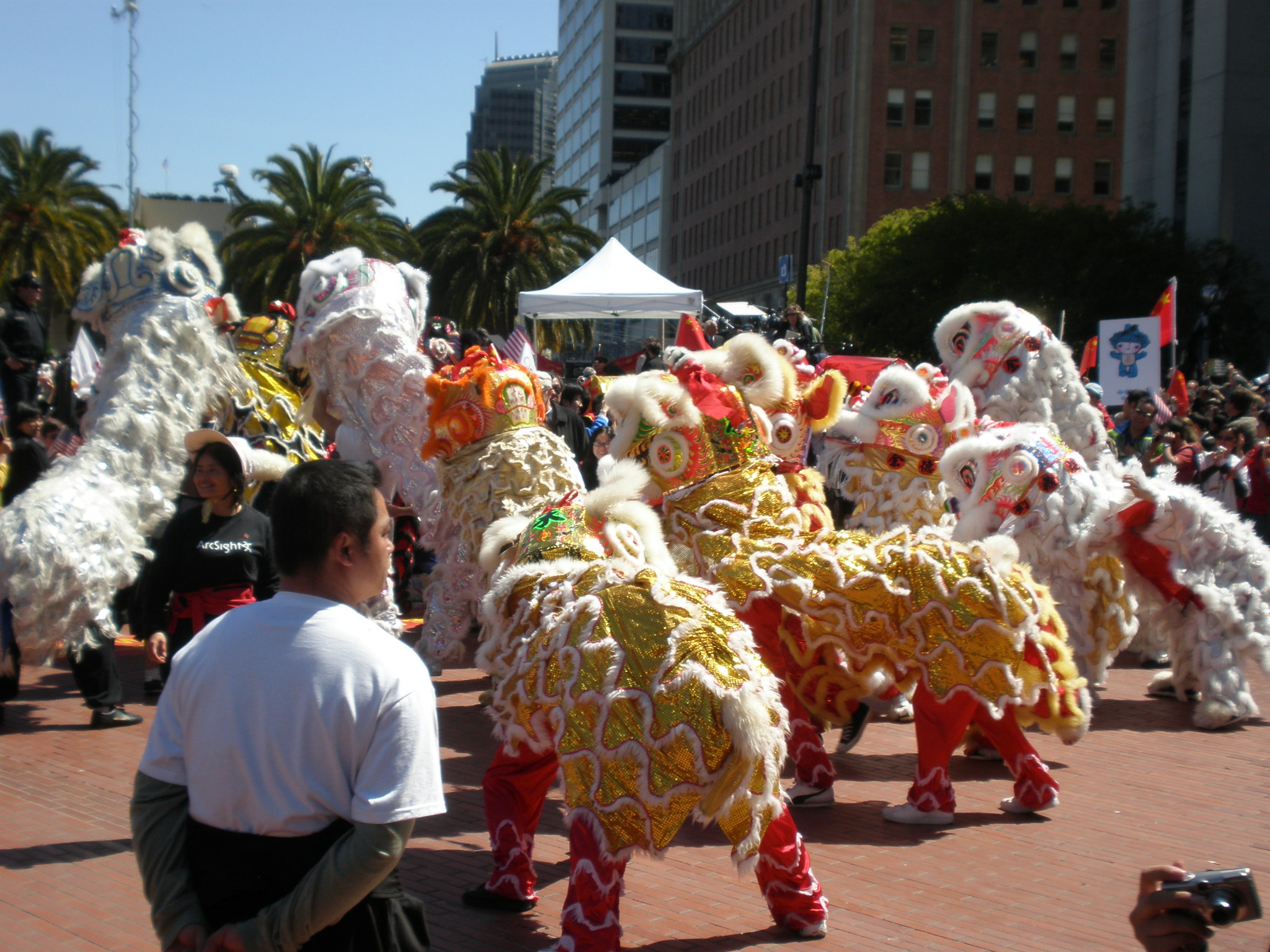 Members of the Buk Sing Choy Lay Fut Kung Fu Association from Fremont, California perform a lion dance to welcome the torch's arrival in Justin Herman Plaza. For an explanation and additional photos of my experience during the relay please see User:BrokenSphere/Gallery/San Francisco Bay Area/San Francisco/2008 Olympic Torch Relay.